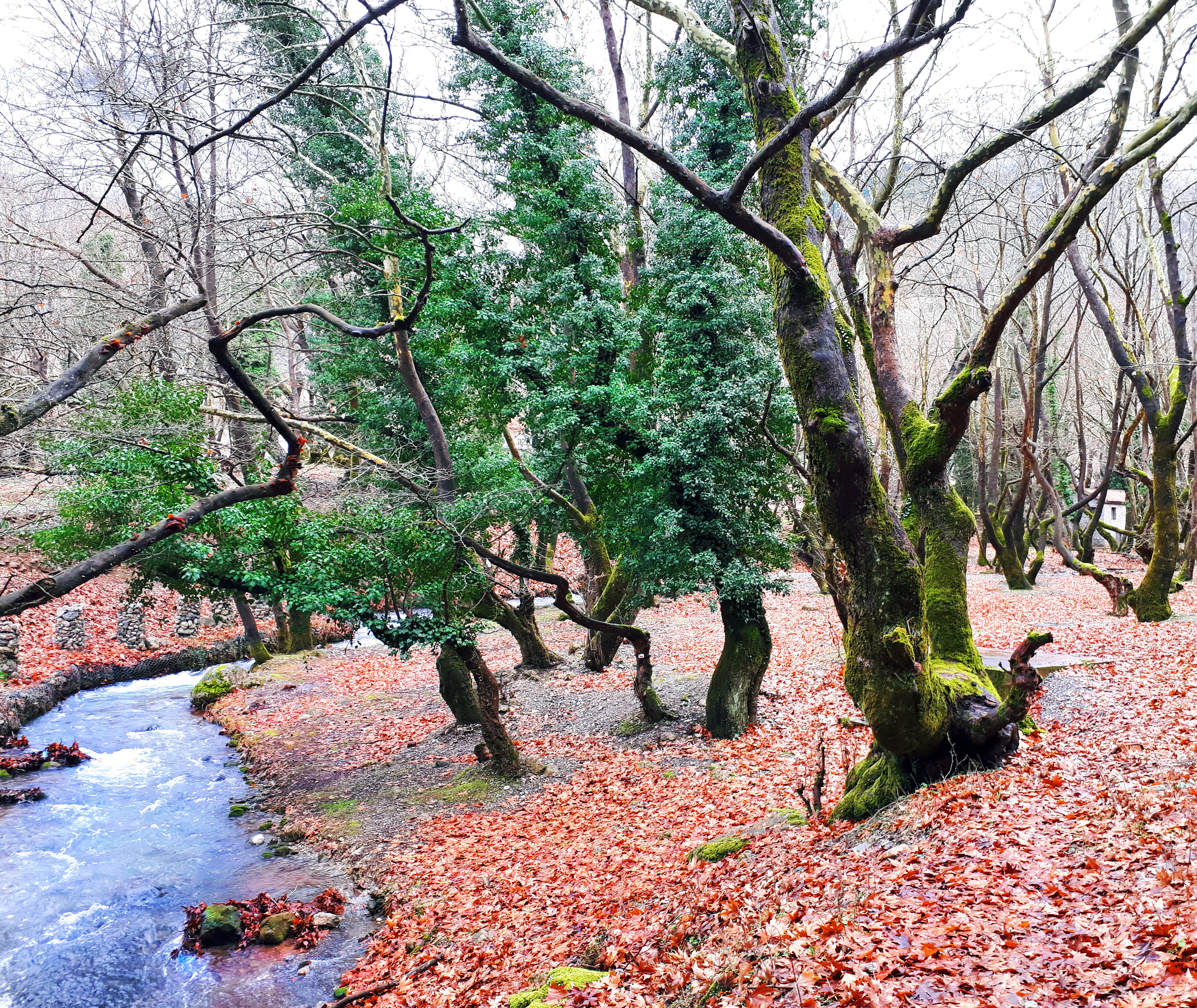 This is a photography of Natura 2000 protected area with ID GR2320002